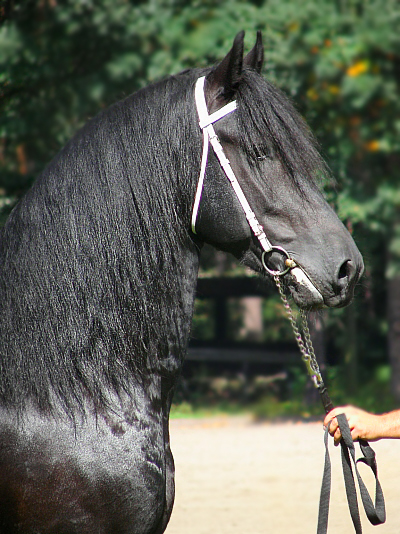 Friesian horse - Eelco R